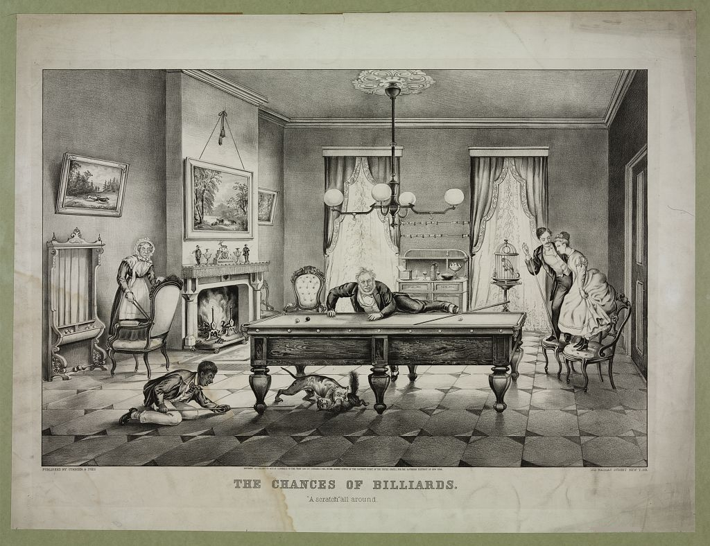 The chances of billiards: "A scratch all around"